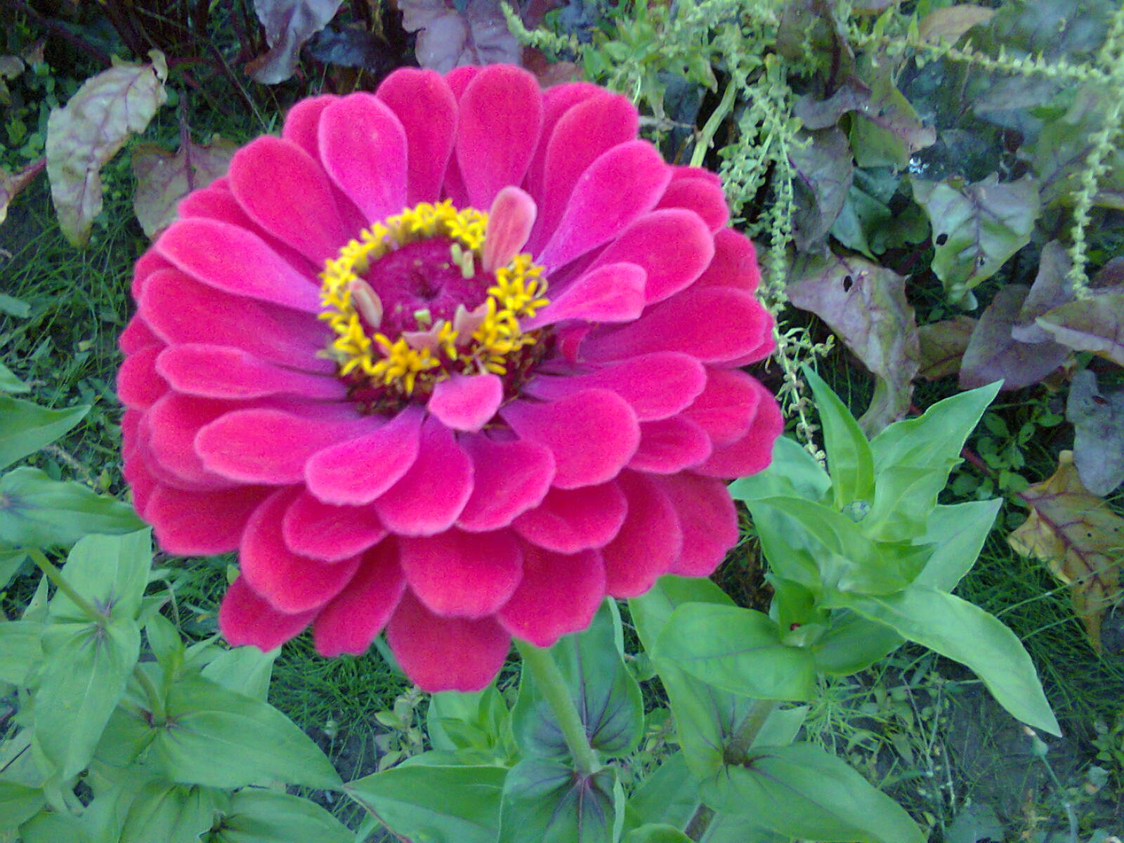 Zinnia elegans in Lónyaytelep, Transylvania.